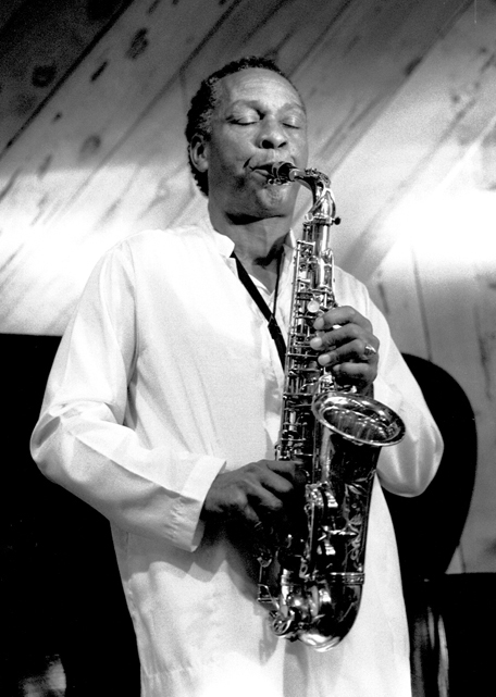 Frank Morgan at Bach Dancing & Dynamite Society, Half Moon Bay CA 9/2/86. Photo by Brian McMillen /